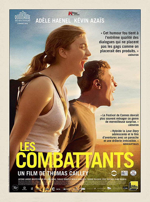 Poster of the movie Love at First Fight (Q16864688)